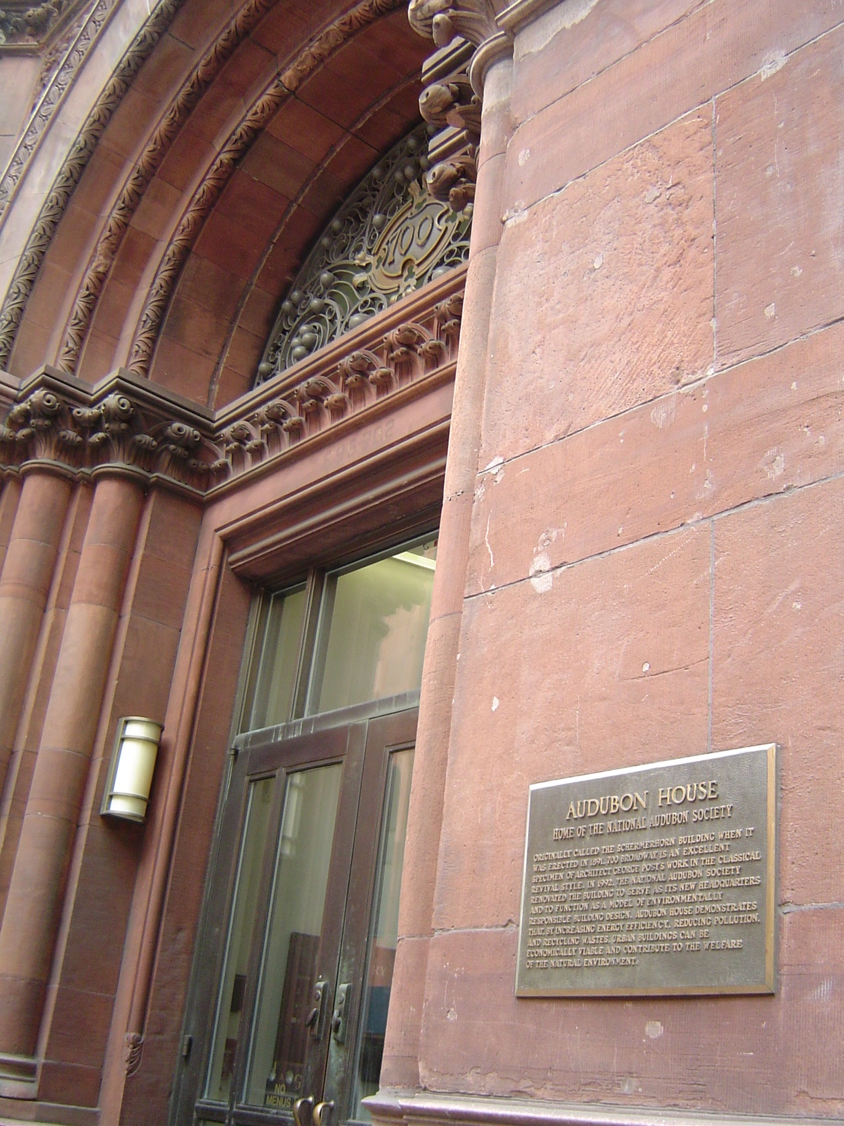 Headquarter of National Audubon Society in New York